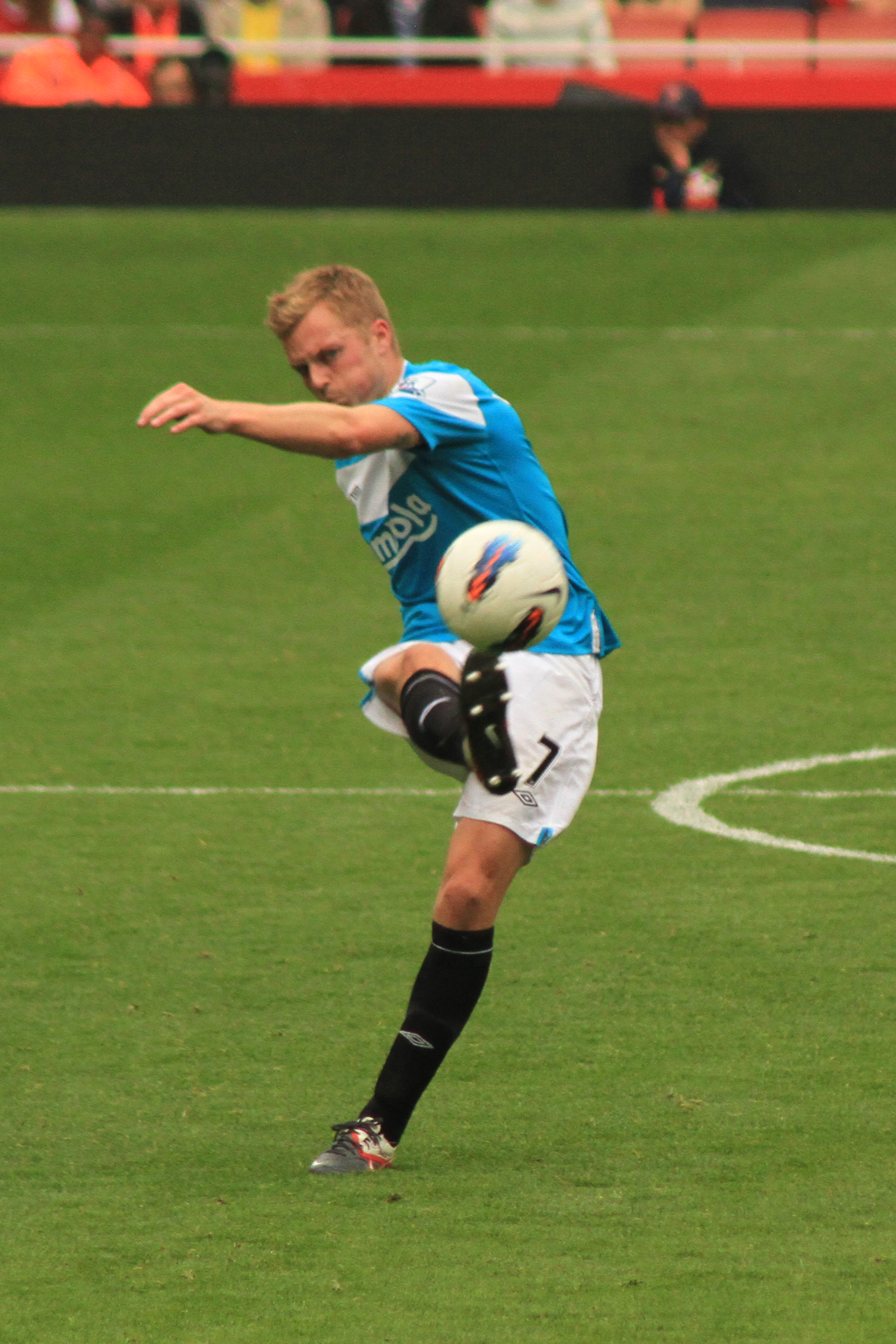 Sebastian Larsson of Sunderland takes a free kick against Arsenal in 2011.